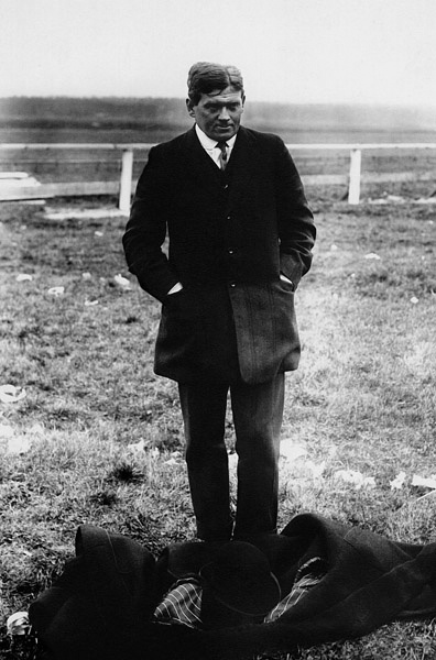 Sergey Isaevich Utochkin, a Russian aviator